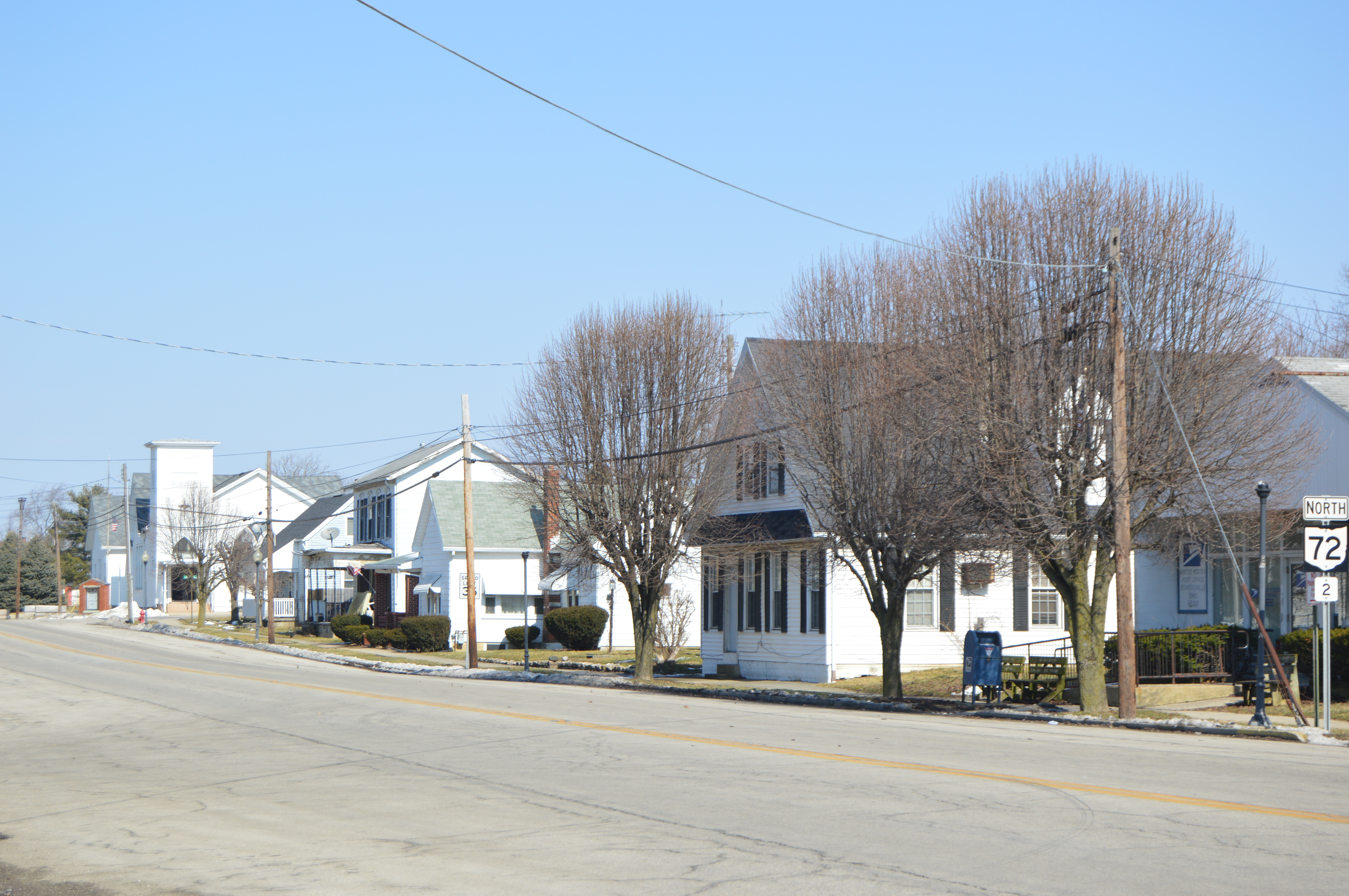 Buildings on the eastern side of Maysville Street (State Route 72) north of the Xenia Street intersection in Bowersville, Ohio, United States.